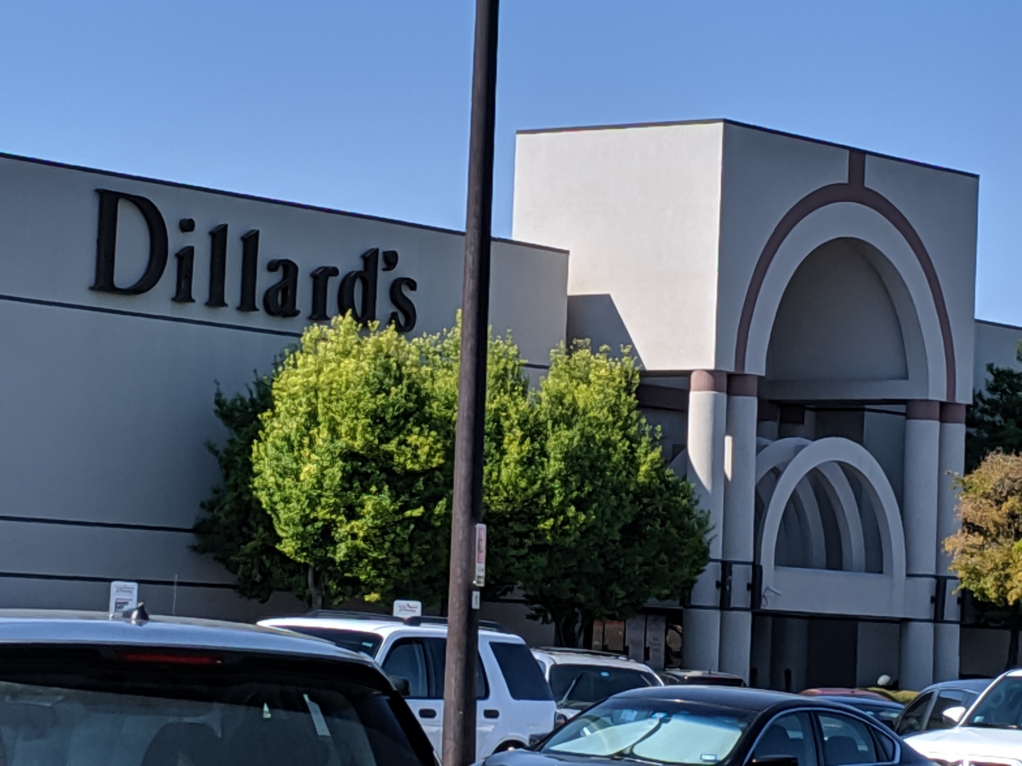 Exterior view of Music City Mall Dillard's Store. Depicting it's northeastern facade.